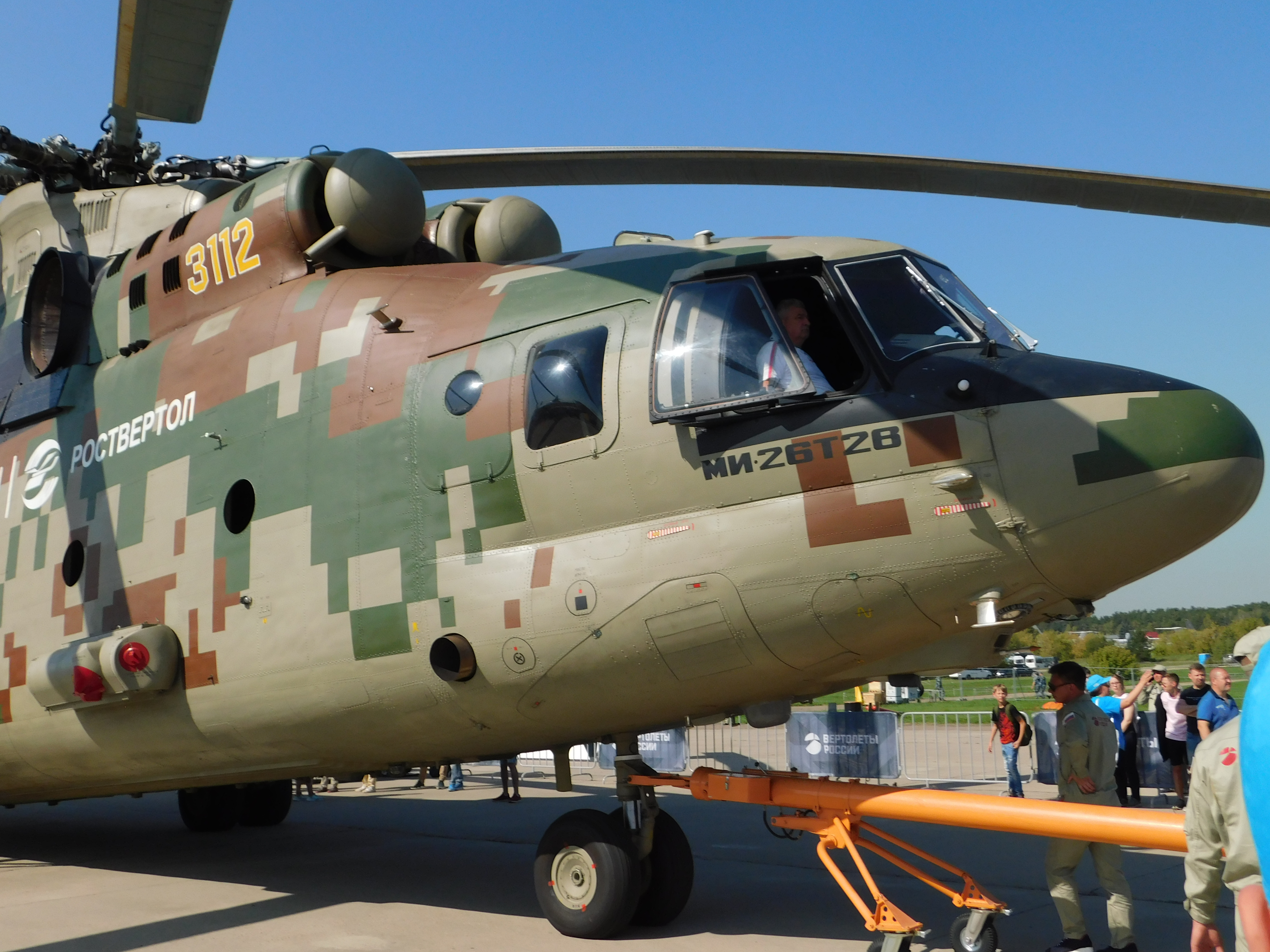 MAKS Airshow 2019 (2019-08-30)